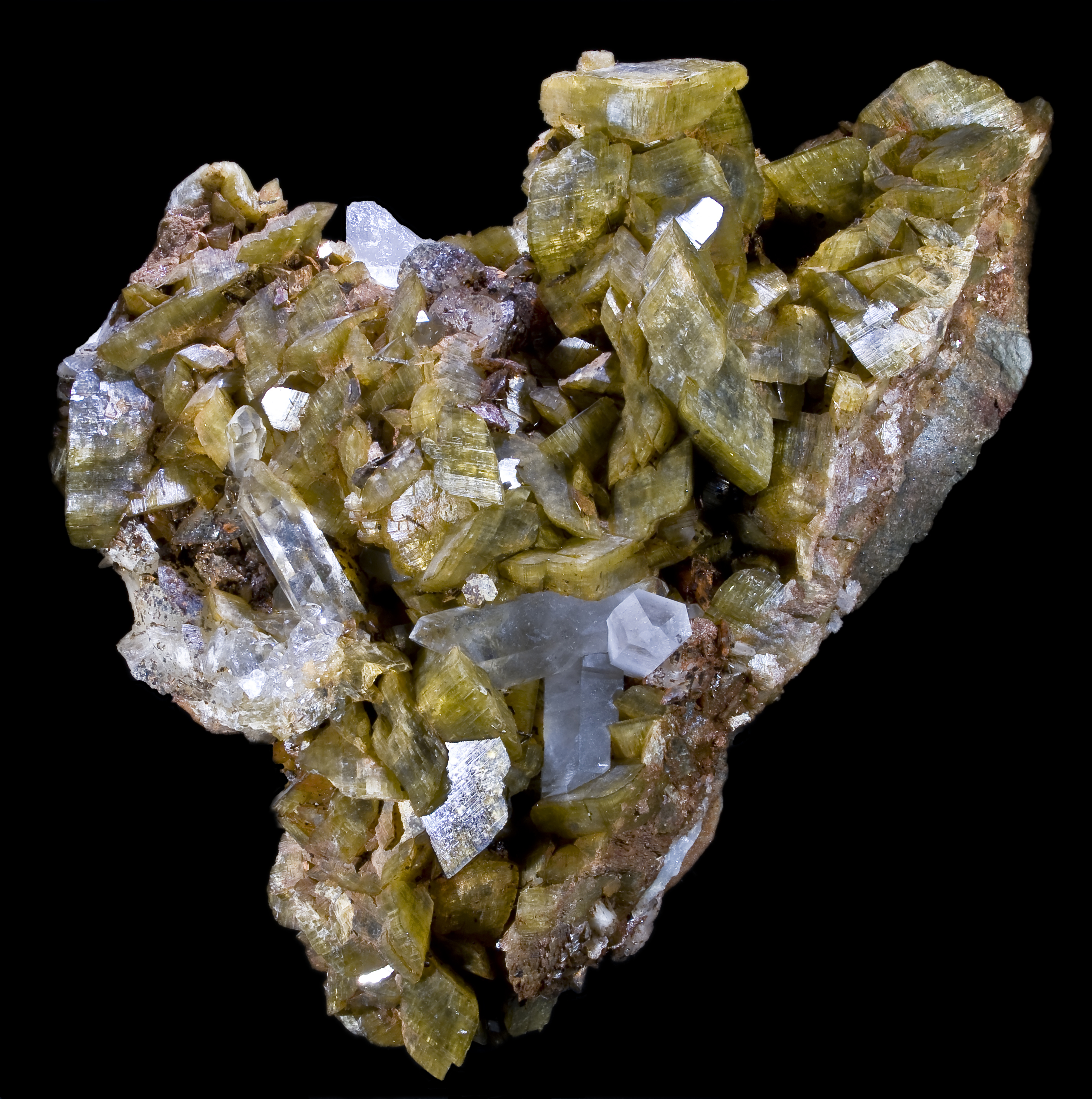 Siderite with Quartz Locality : Morro Velho mine, Nova Lima, Minas Gerais, Southeast Region, Brazil Size : 21x13cm